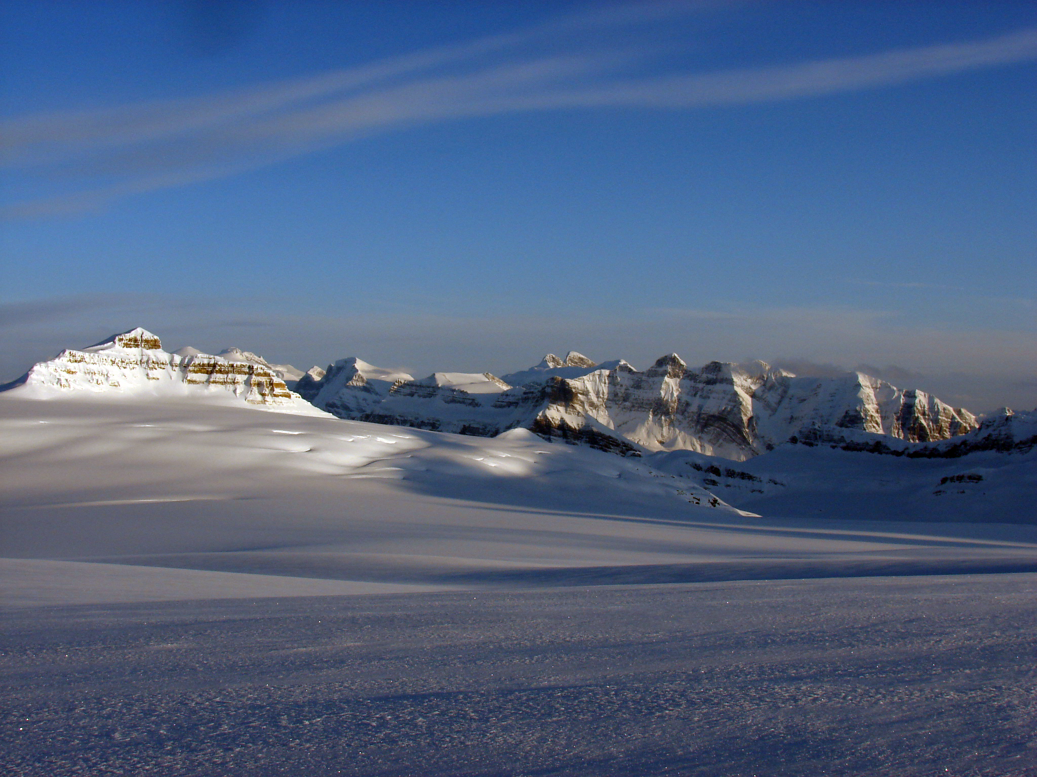 View from camp atop Columbia Icefield looking south, Castleguard Mountain at left